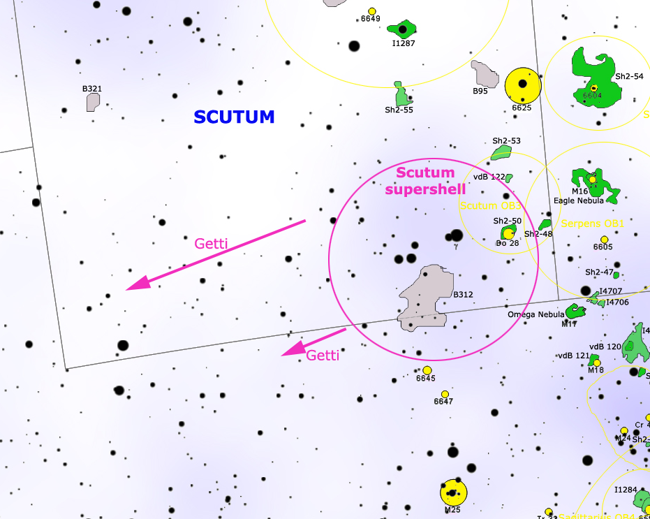 Map of the Scutum supershell.